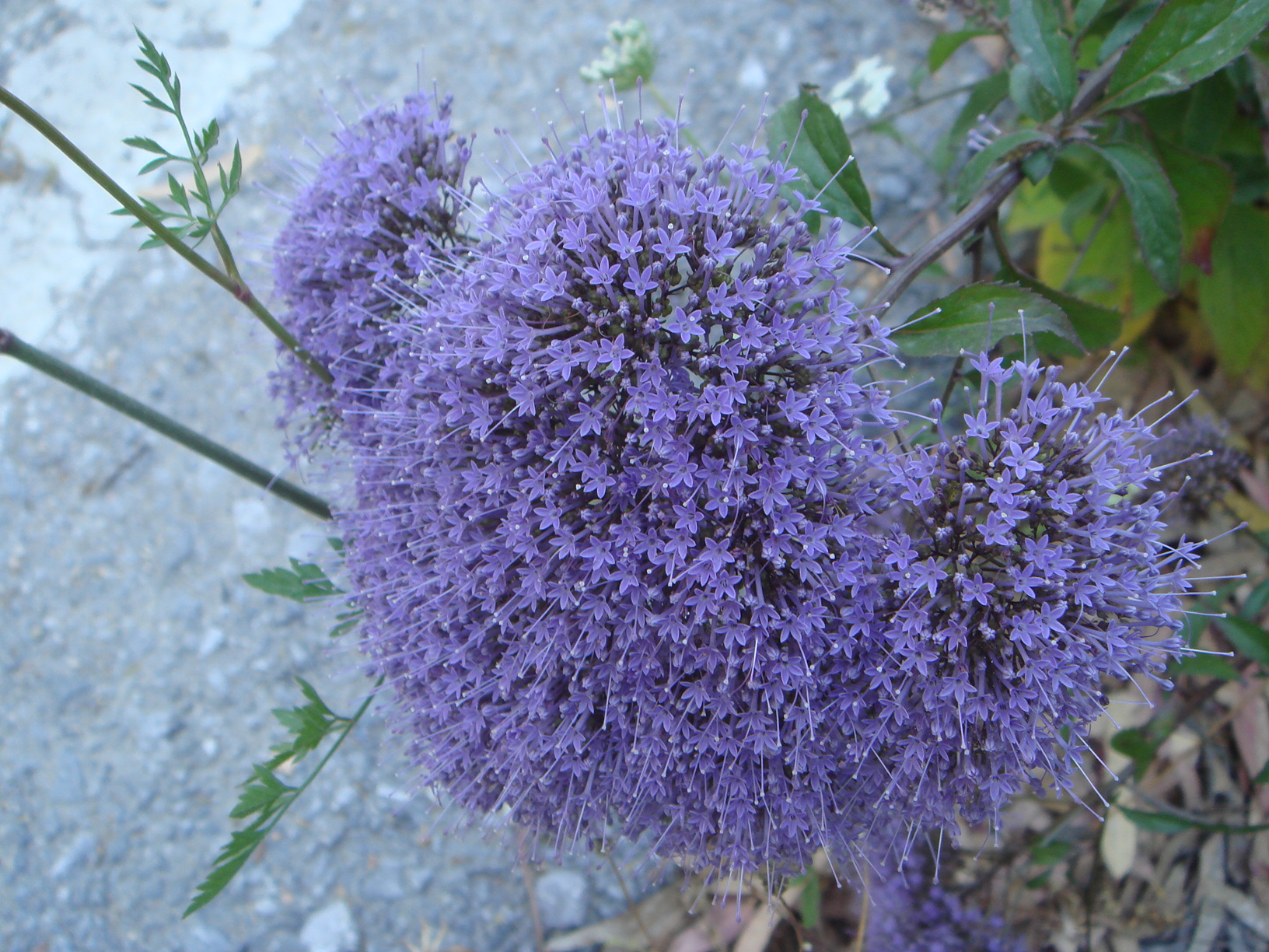 Throatwort, (Trachelium caeruleum subsp. caeruleum), Spain, Ceuta.